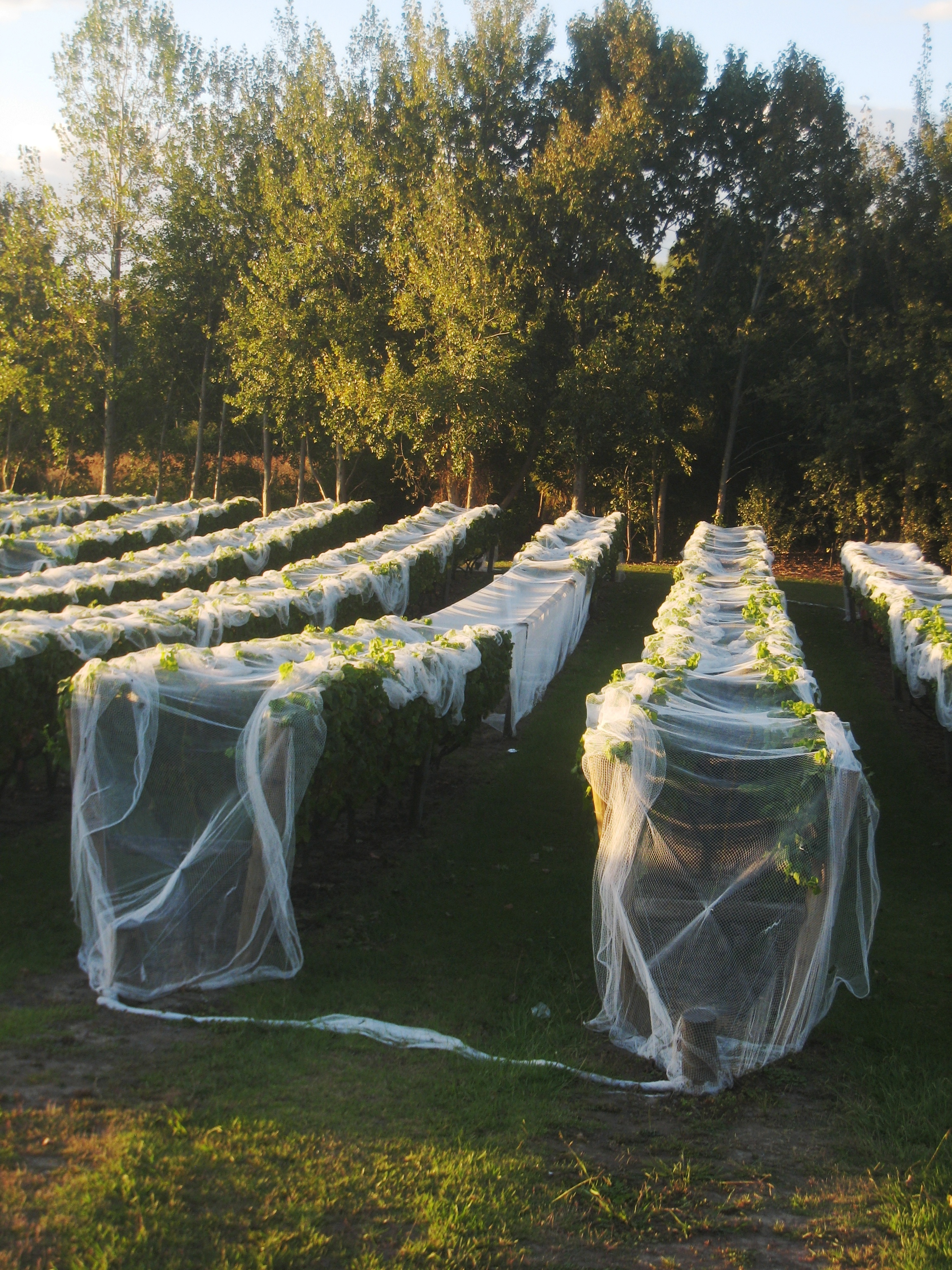 Bird netting on top of grapevines outside Kumeu, near Auckland, New Zealand. Most of the sides have been lifted up for harvesting.